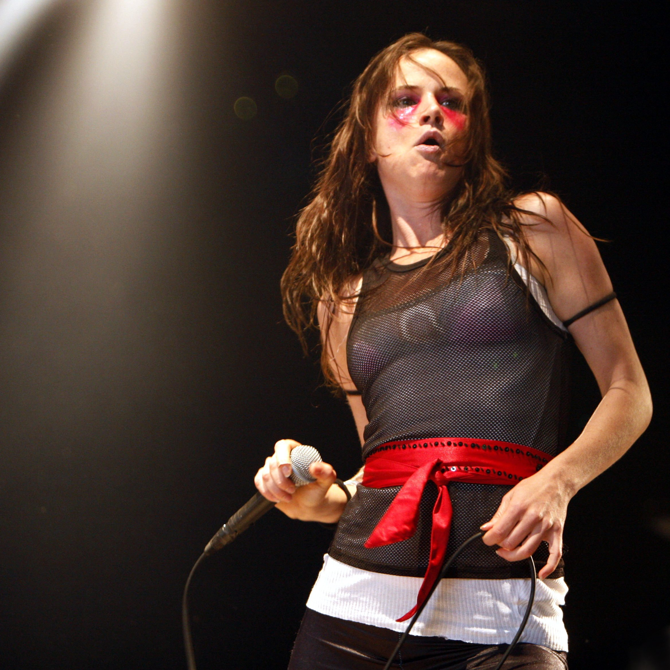 Juliette Lewis from Juliette and the Licks at the Eurockéennes of 2007.